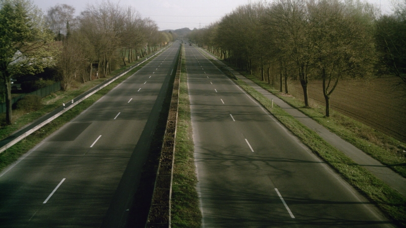 State Road L116 (North Rhine-Westphalia) between Mönchengladbach and Viersen